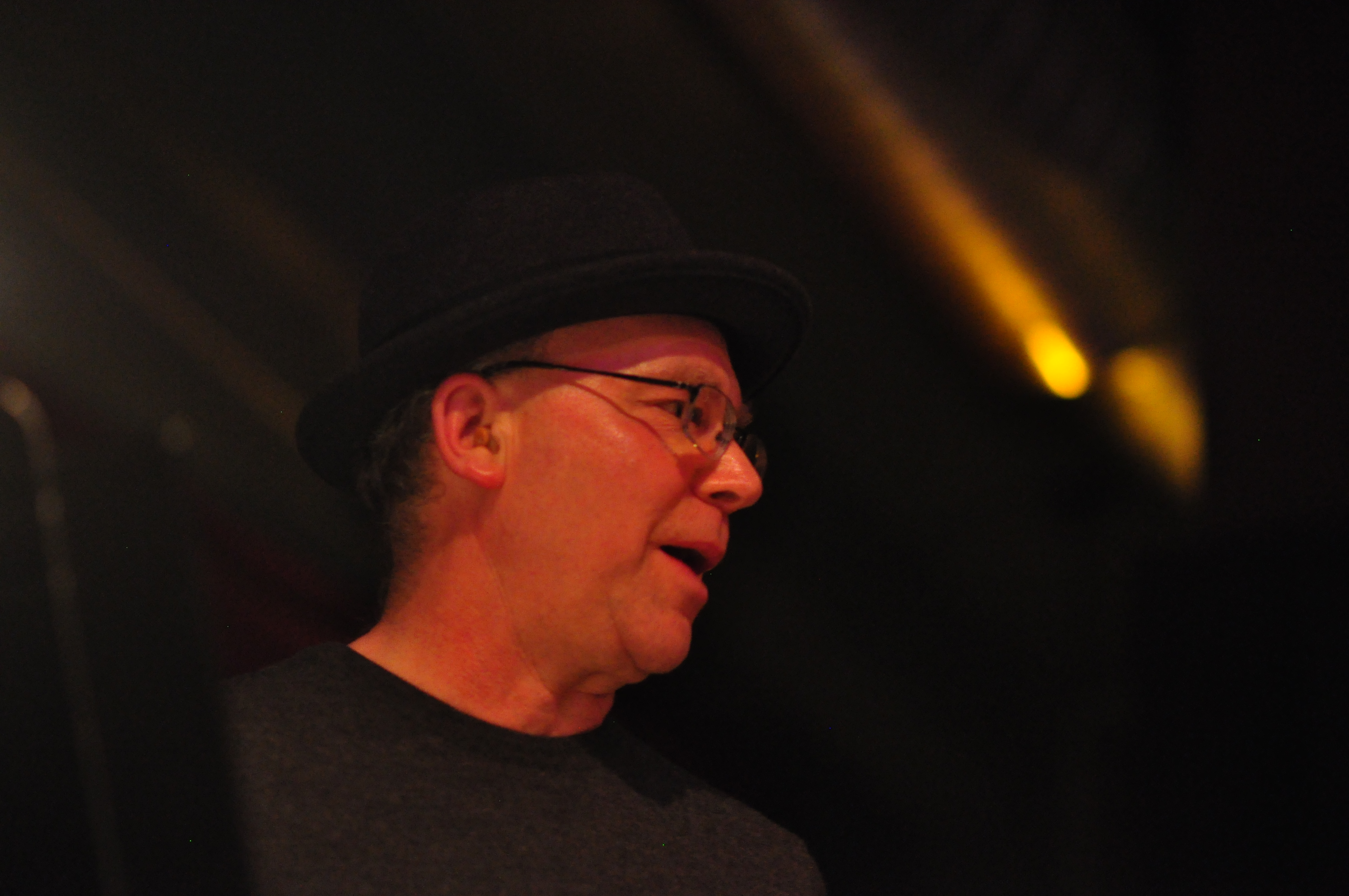 Jazz musician Wayne Horvitz appearing at the OK Hotel Family Reunion, Royal Room, Columbia City, Seattle, Washington Sunday night, February 28, 2016.